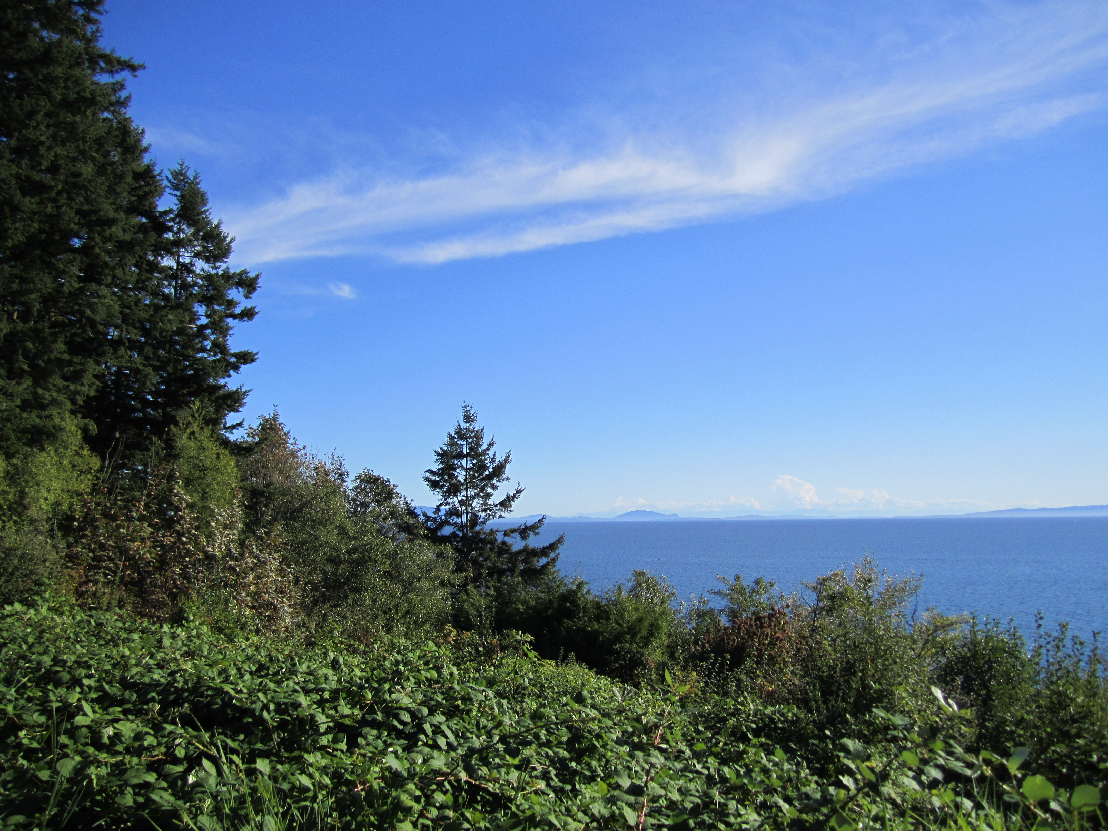 Taken on a nice summer's day. Located in Ocean Park, South Surrey, British Columbia.